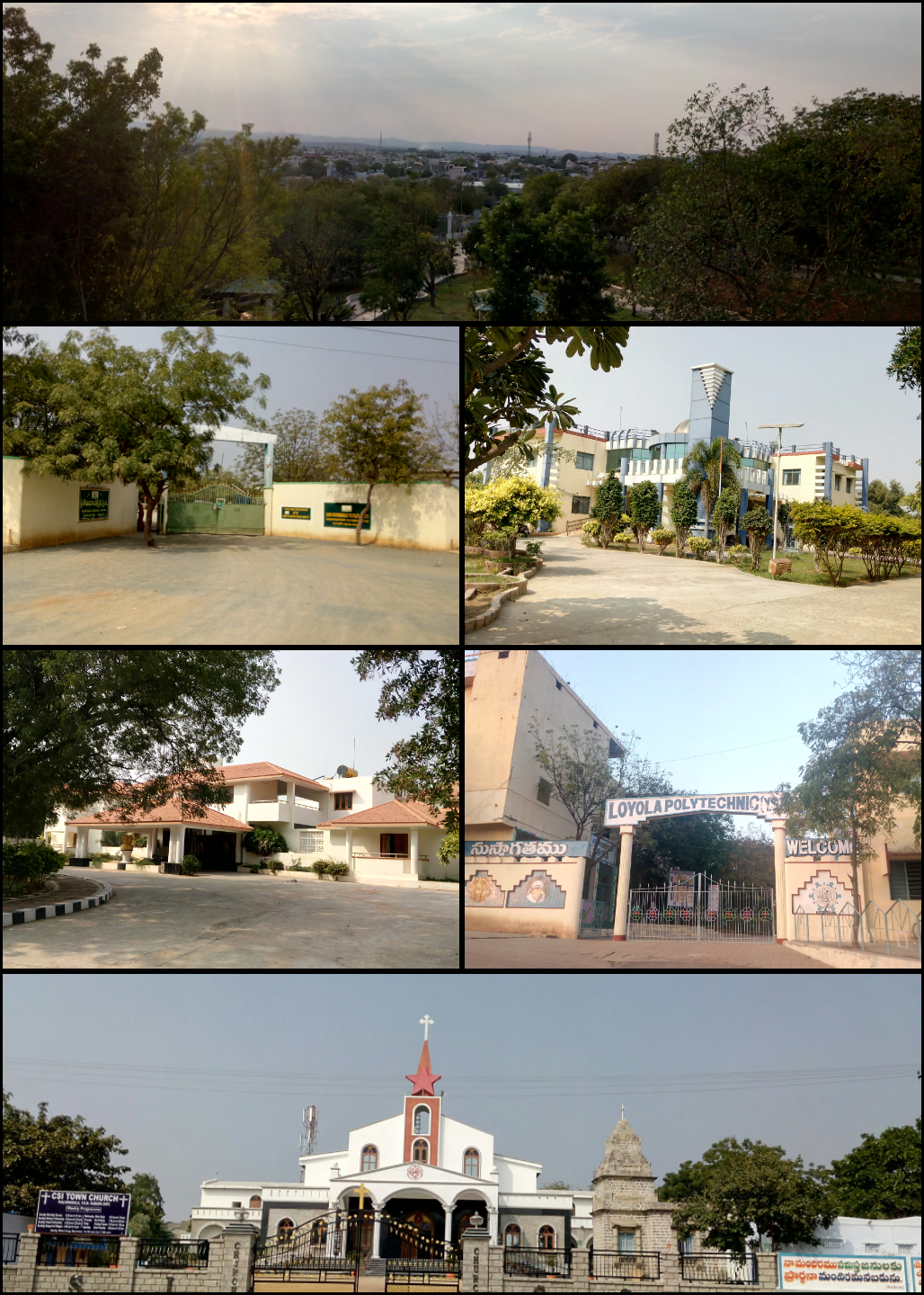 pvdl montage